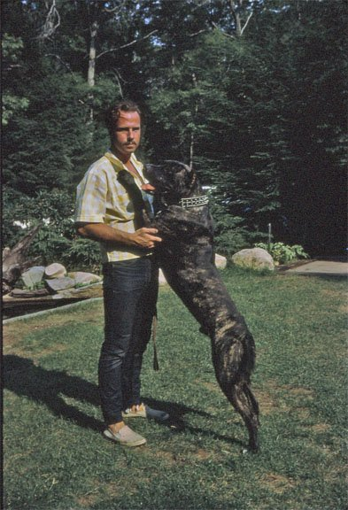 This photo of John Swinford, DVM, and his dog Bantu was taken in 1970 by Joanne Baldwin, DVM in John Swiford's back yard. The copyrights of this photo were released by Joanne Baldwin to H. Lee Robinson of the American Sentinel K9 Association.